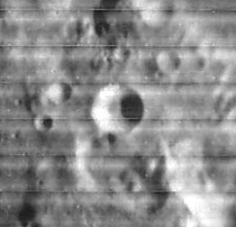 Image LOIV-061-H2